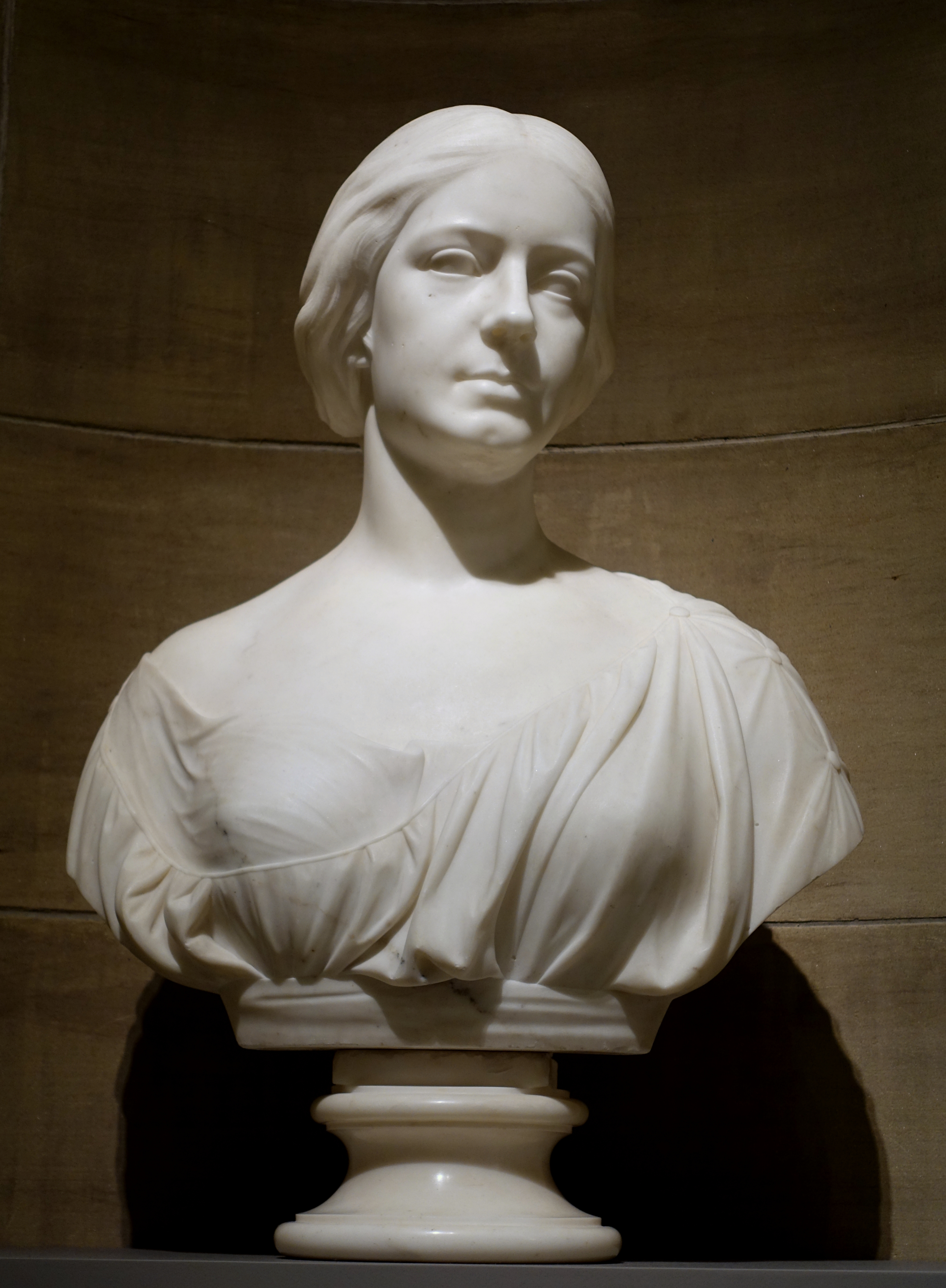 Exhibit in the Portland Museum of Art - Portland, Maine, USA.